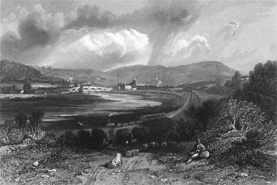 At Haydon Bridge there is an extensive station that has been formed by the railway company...